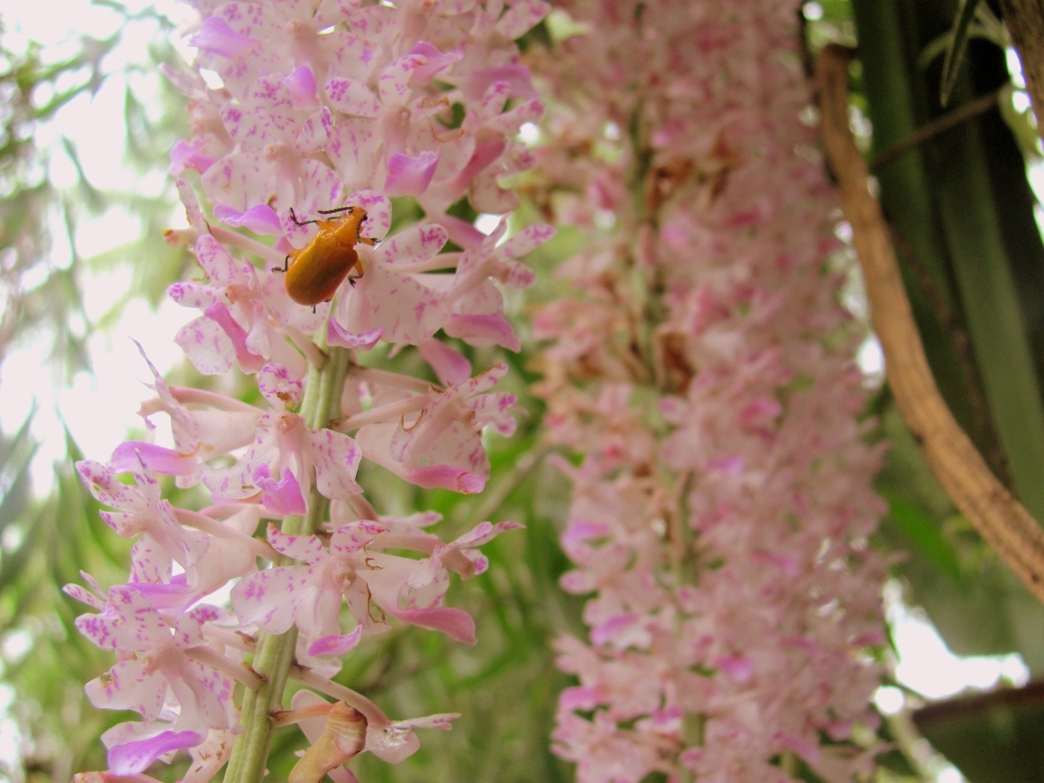 A very rare orchid that blooms mostly in India's North East, once a year during April. For the people of Assam this flower marks the festive season of Bihu, with girls putting up this flower in their buns or khupa(in assamese), while performing the Bihu Dance. Assam India